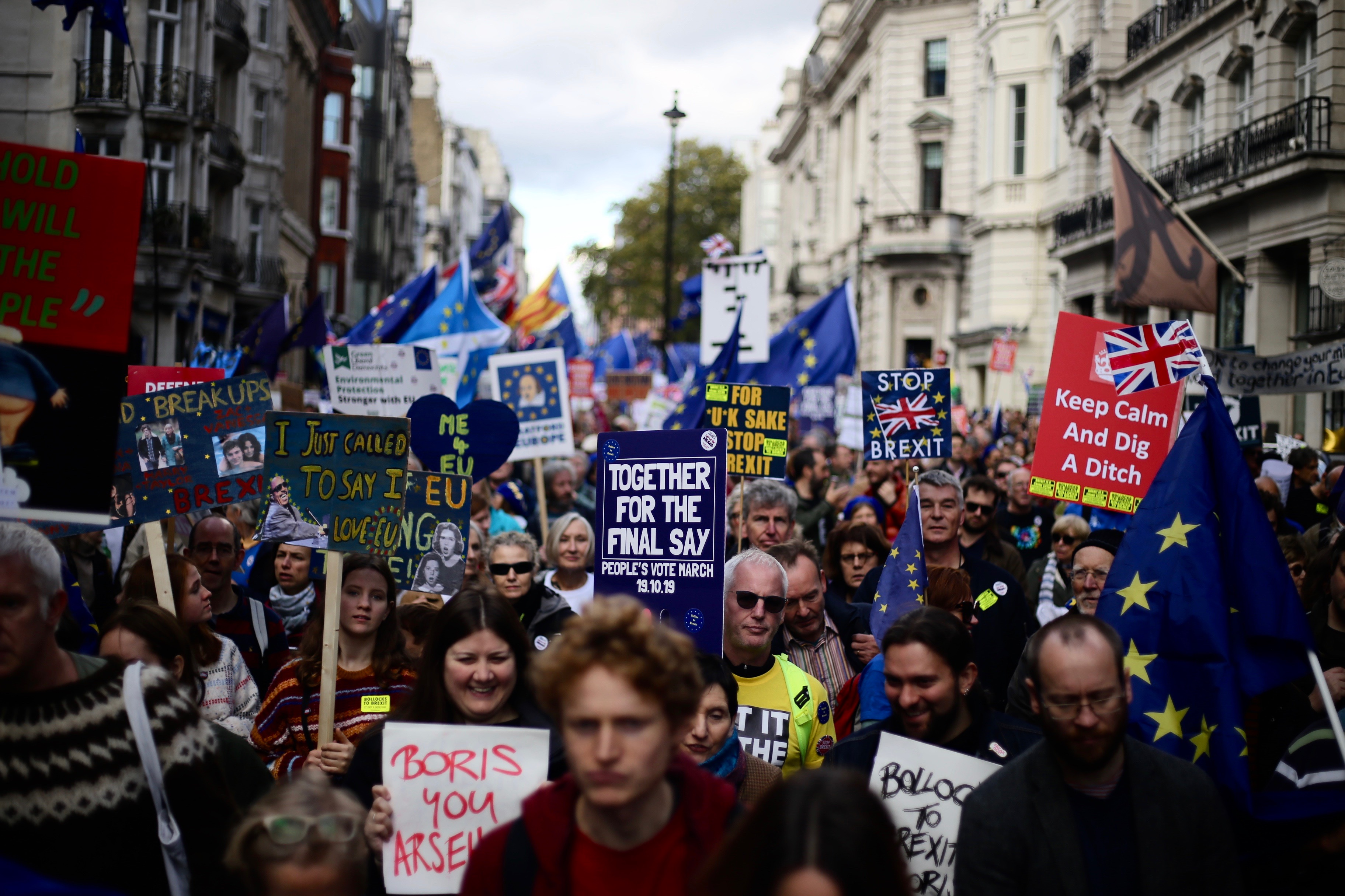 These are open-source pictures taken during the anti-Brexit, pro-EU, pro-UK, People's Vote march in London, England, on October 19, 2019, while MPs in the House of Commons debated for the first time on a Saturday since 1982 and voted in favour of the Letwin Amendment that was intended to stop a no-deal Brexit.